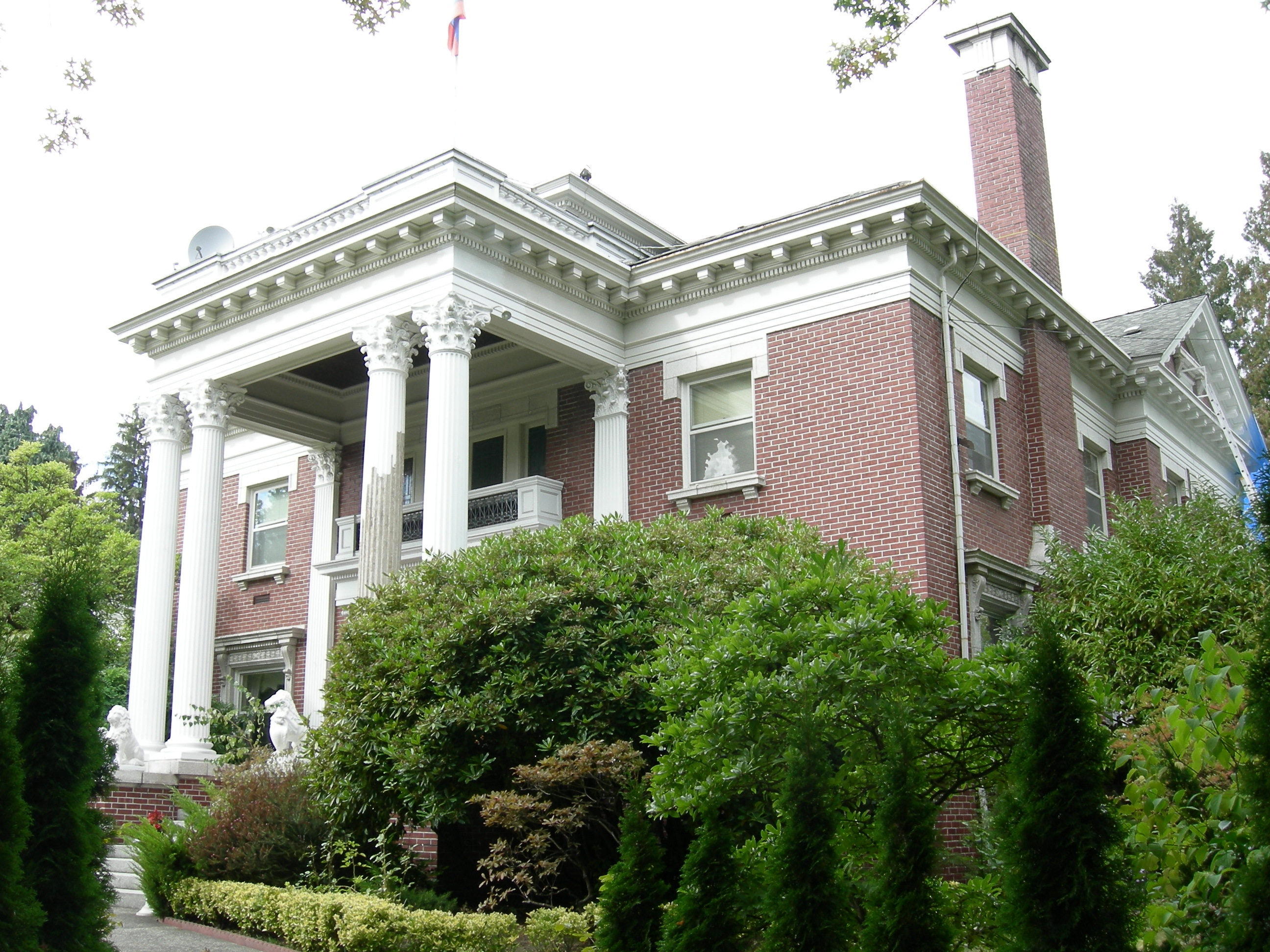 Samuel Hyde House, 3726 East Madison Street, Madison Park neighborhood, Seattle, Washington, USA. Listed as a Seattle city landmark and on the National Register of Historic Places, ID #82004238.